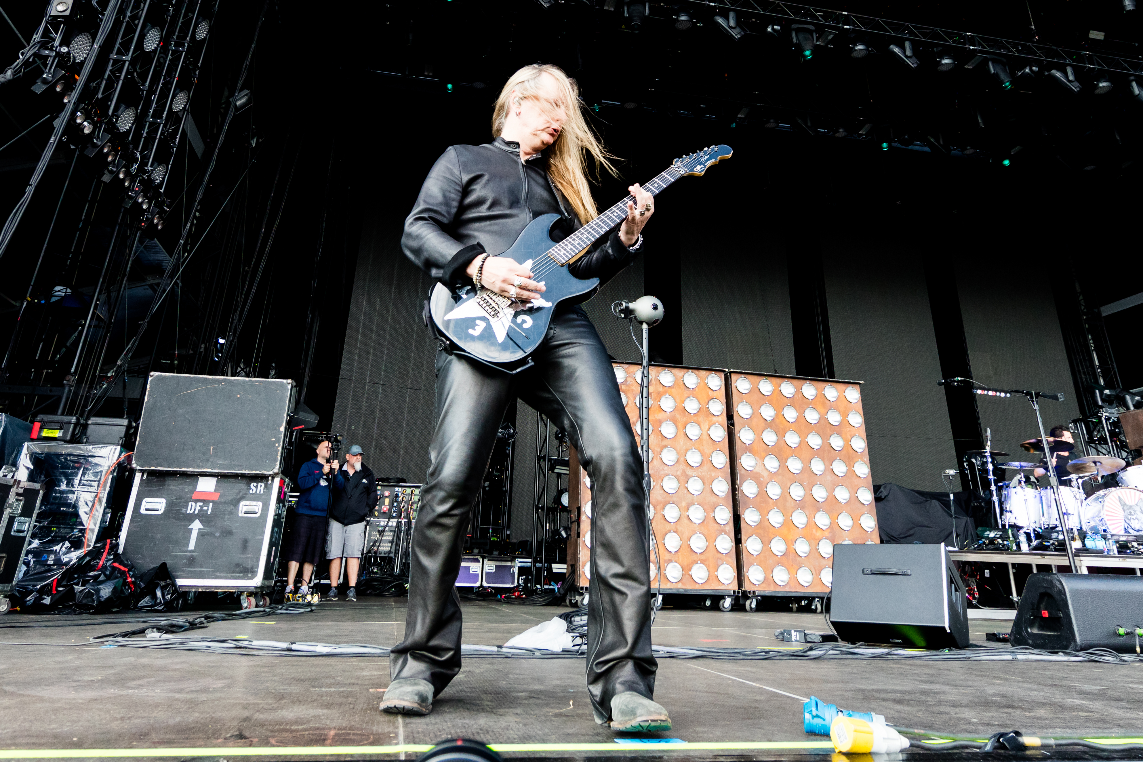 Alice in Chains during Rock am Ring ( at Nürburgring, Rheinland-Pfalz, Germany on 2019-06-07, Photo: Sven Mandel Promotion by Live Nation (